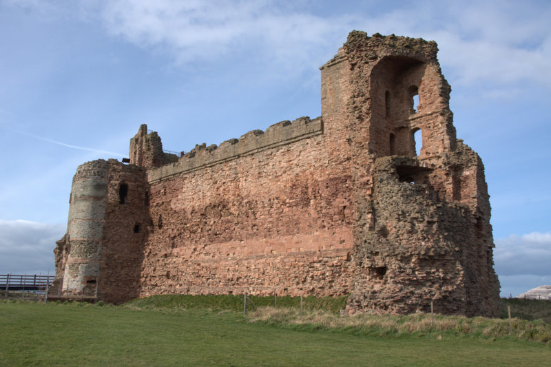 Tantallon Castle View from beside the East Tower, the castle is basically a huge wall built across a headland.